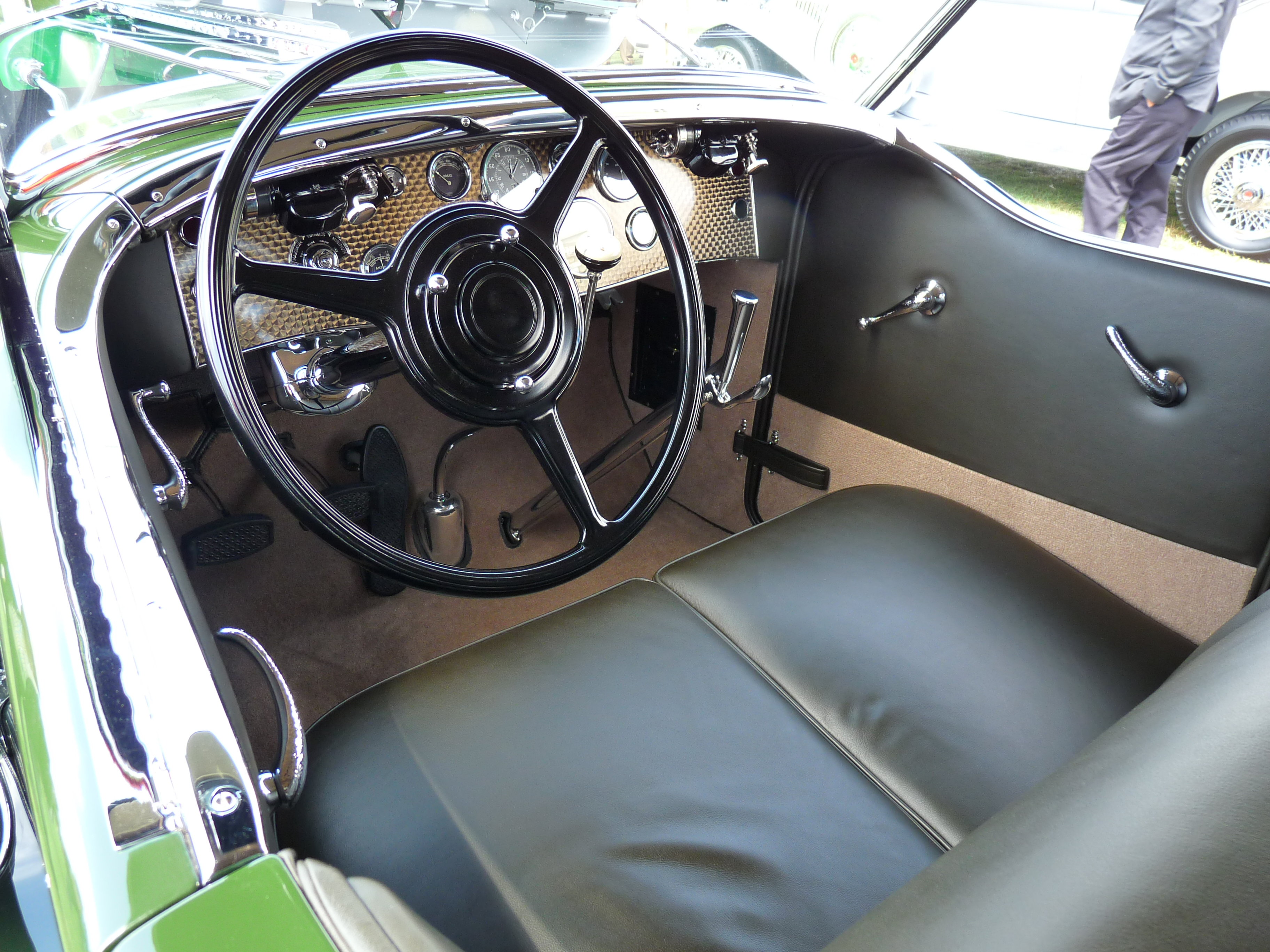 1929 Duesenberg J Murphy Dual Cowl Phaeton